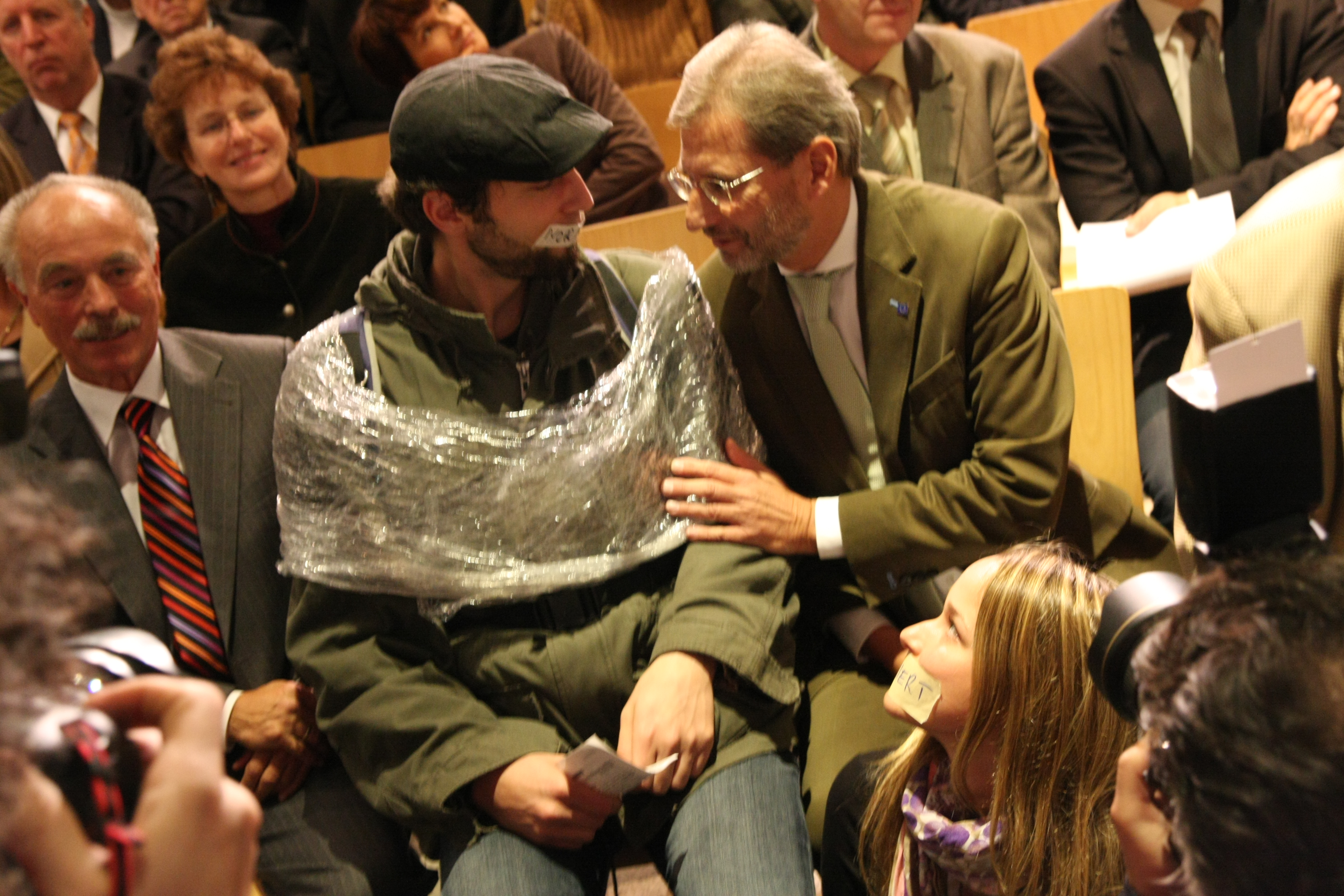 Student Protests in Vienna, Austria, Science-Minister Hahn (ÖVP)